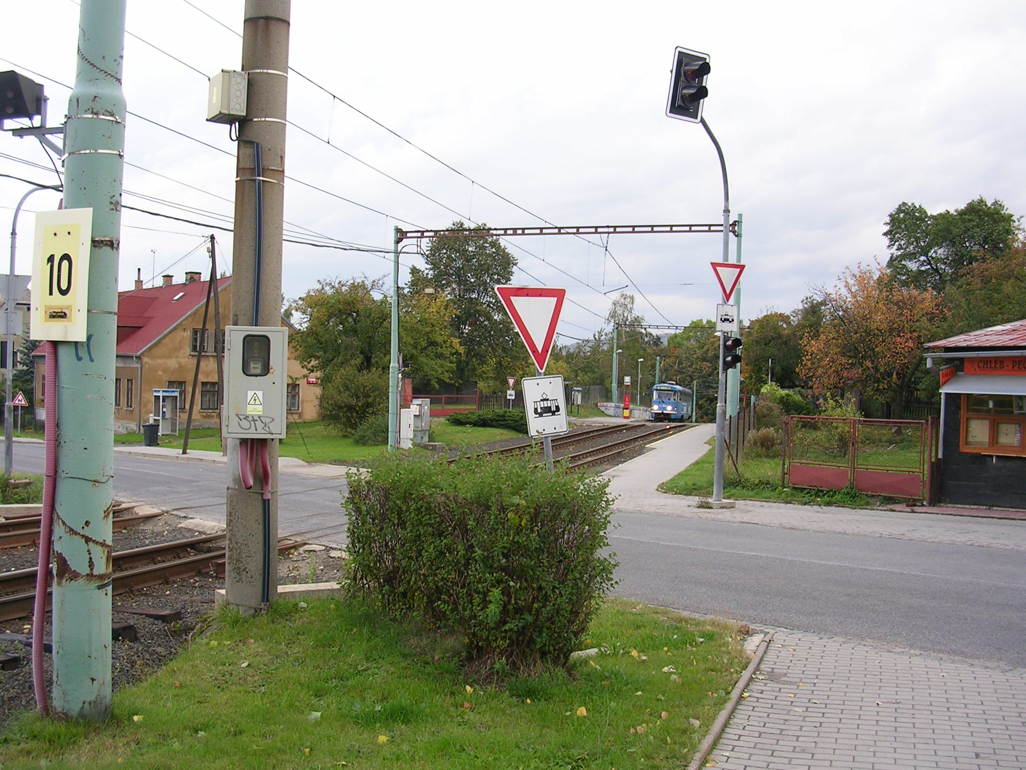 Tramway line between Liberec and Jablonec. Liberec, tram stop Nová Ruda.